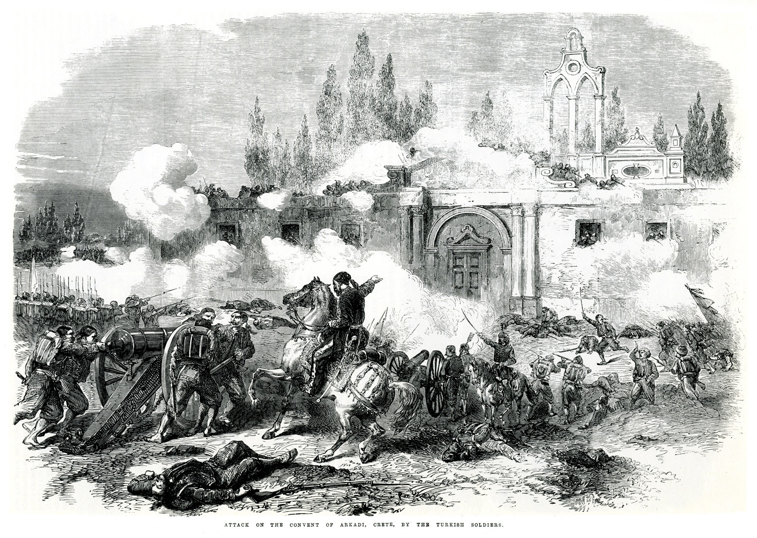 Turkish army attacking Arkadi monastery